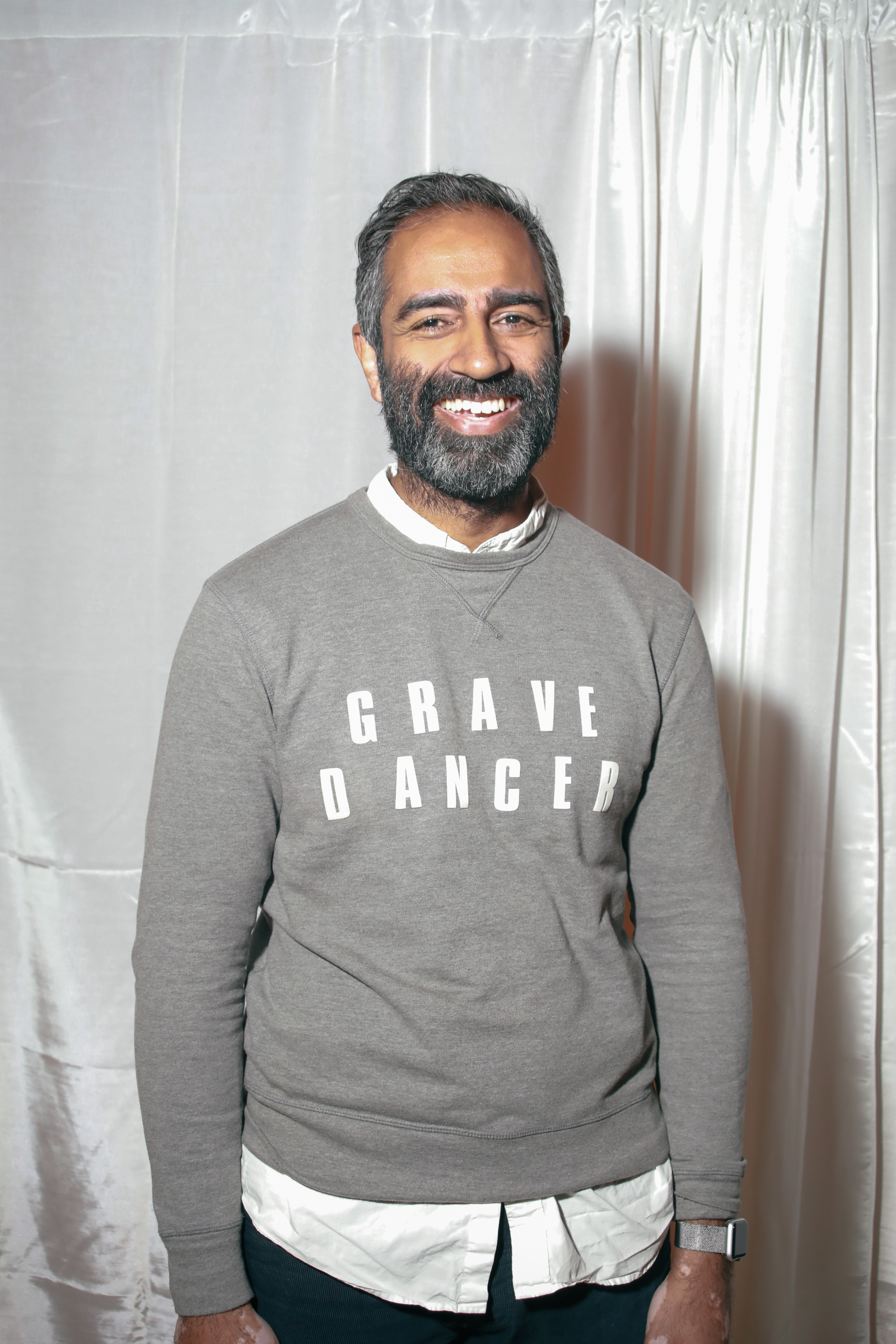 Amol Sarva backstage at a conference wearing the Sam Zell-inspired "Grave Dancer" sweatshirt about the real estate market cycle